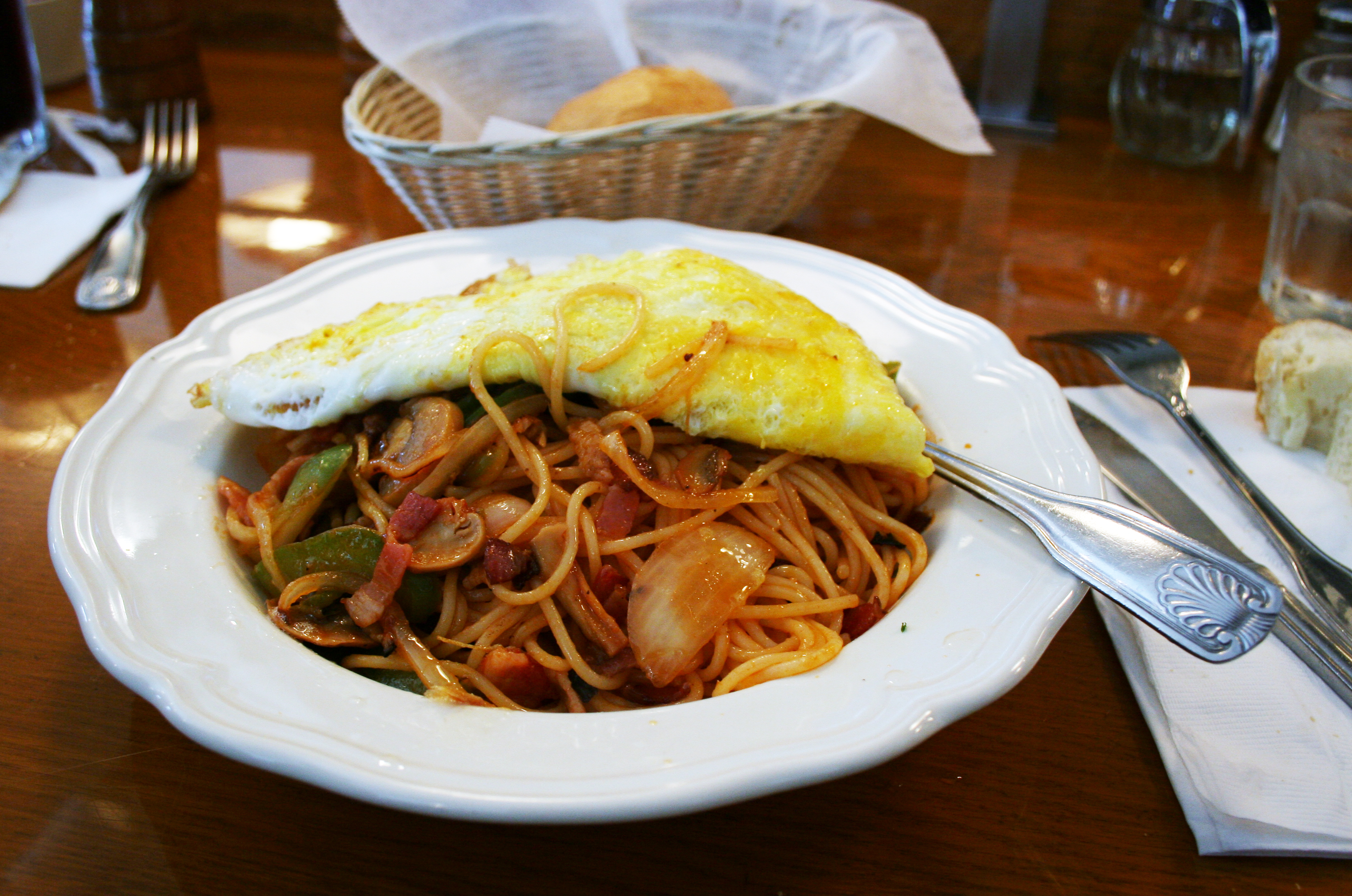 Spaghetti omelet with bacon as served at Spoon House, Gardena, California, USA. A plate of spaghetti with bacon, peppers and onions, topped with an omelet.